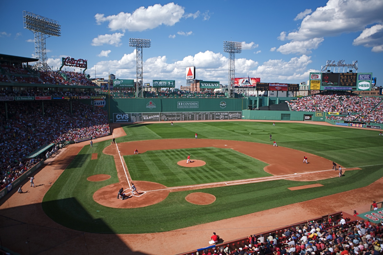 Fenway Park on June 21, 2008